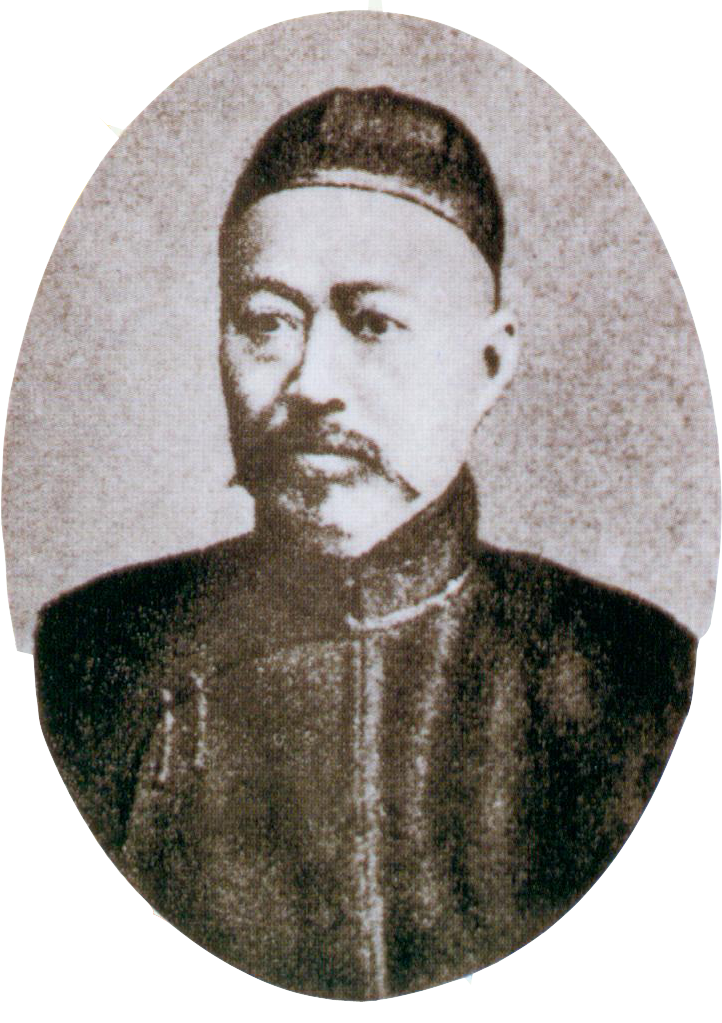 `A Profile of Jingfang Li.